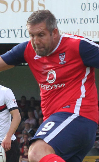 Jon Parkin playing for York City against F.C. United of Manchester at Bootham Crescent, York on 28 August 2017